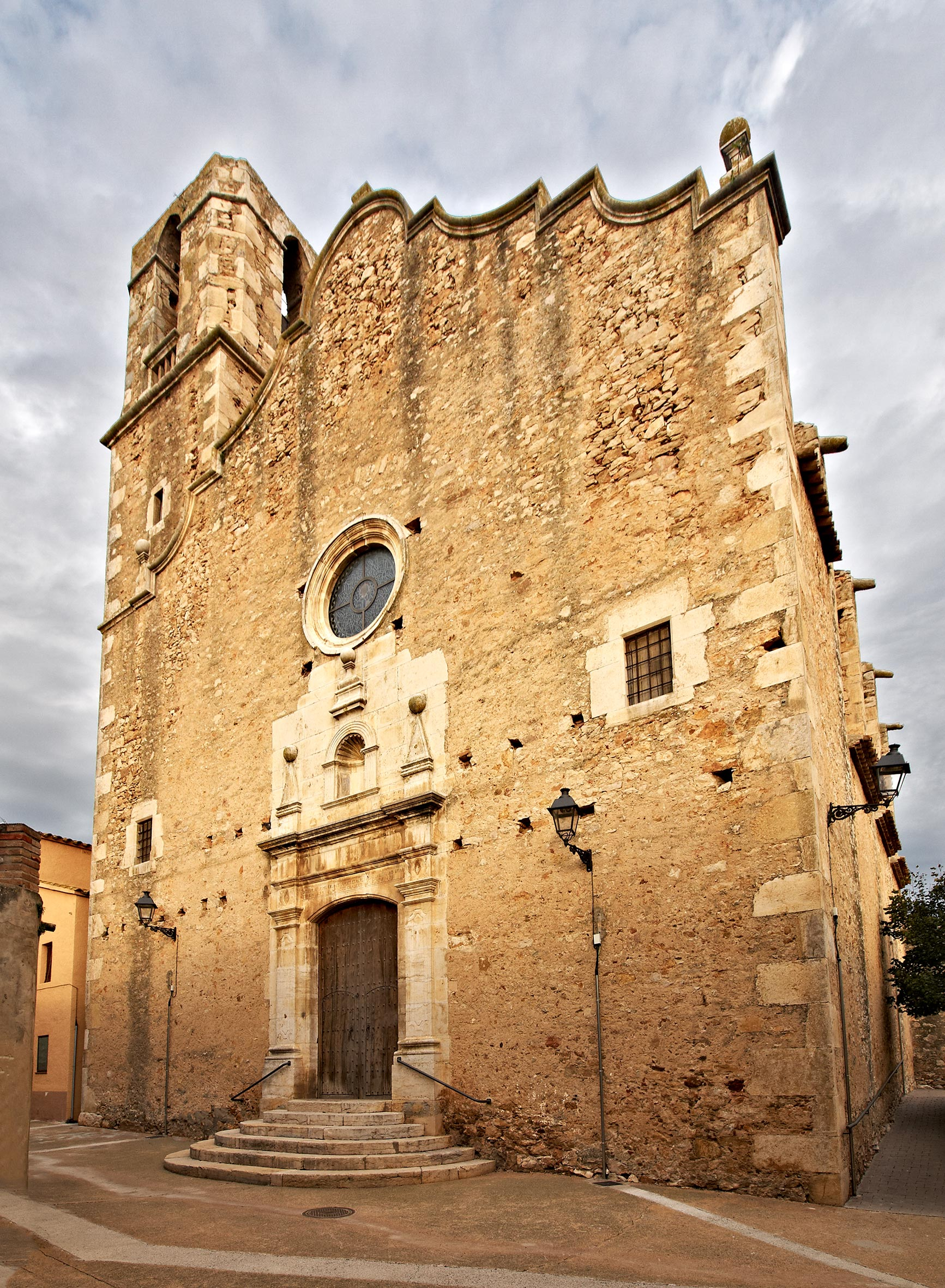 Sant Vicenç church of Regencós, Catalonia, Spain